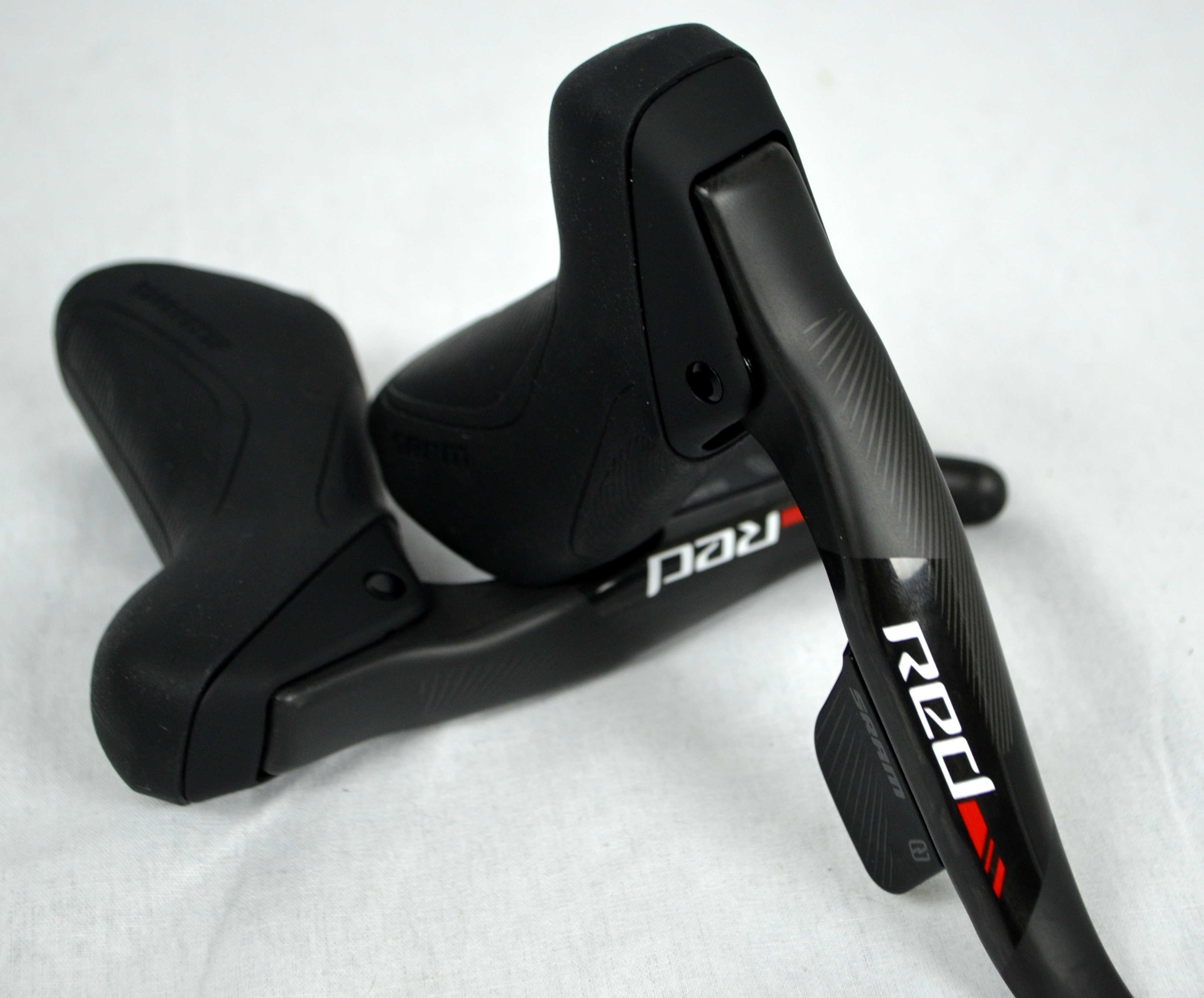 The shifters have virtually the same shape as the mechanical Red 22 with comfortable, grippy hoods.